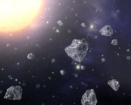 Diamonds in Space